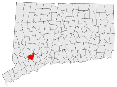 I made this.